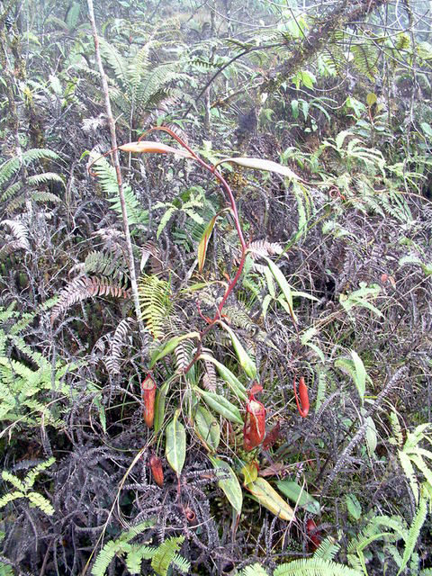 Nepenthes maxima near Puncak Jaya, Western New Guinea (~2600 m asl)